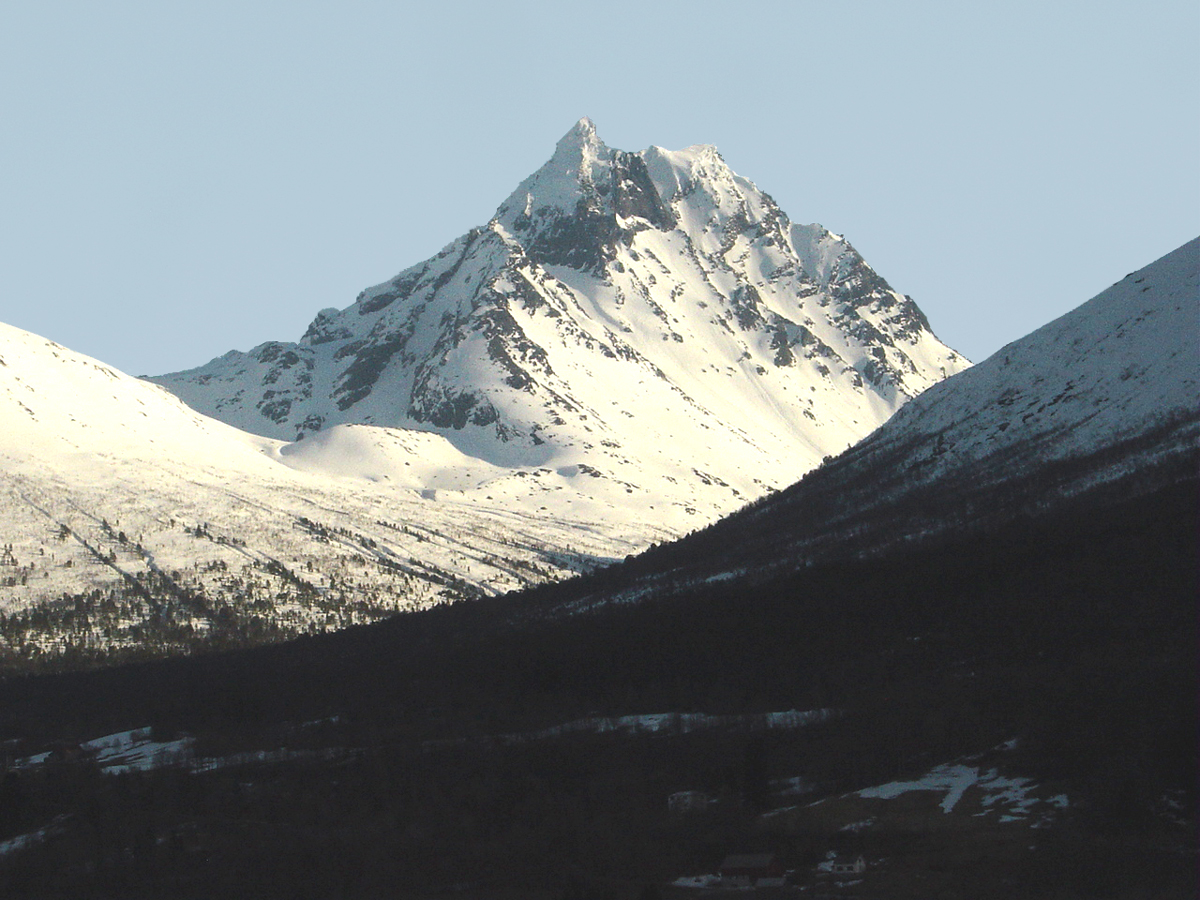 Rauma and the mountain Vengetind.